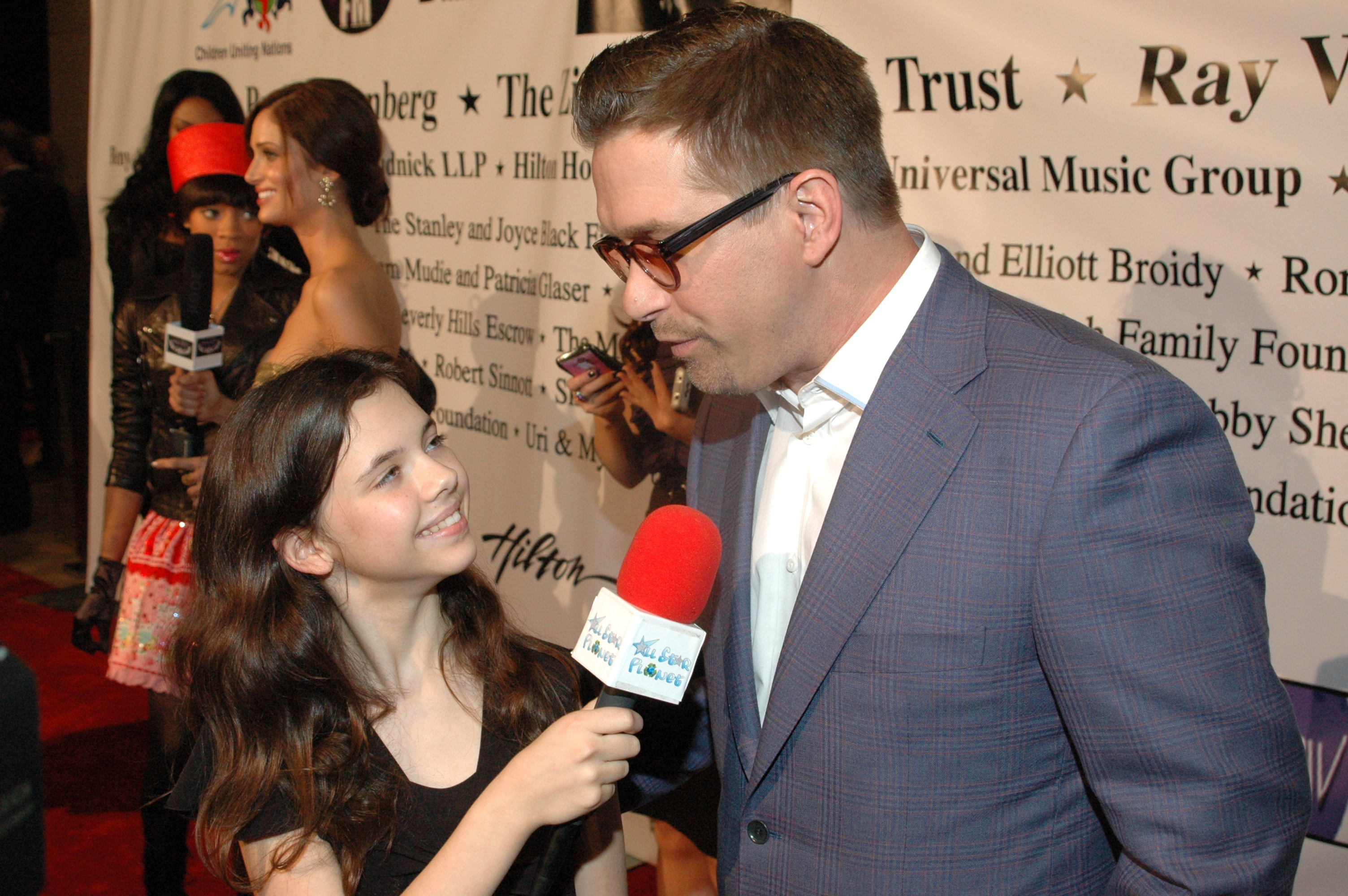 Stephen Baldwin on the Children Uniting Nations Academy Award Viewing Party red carpet, at the Beverly Hilton, Beverly Hills, Los Angeles, California. Held preceding the start of the Oscar telecast. Interviewer is radio talk show host Jennifer Smart.